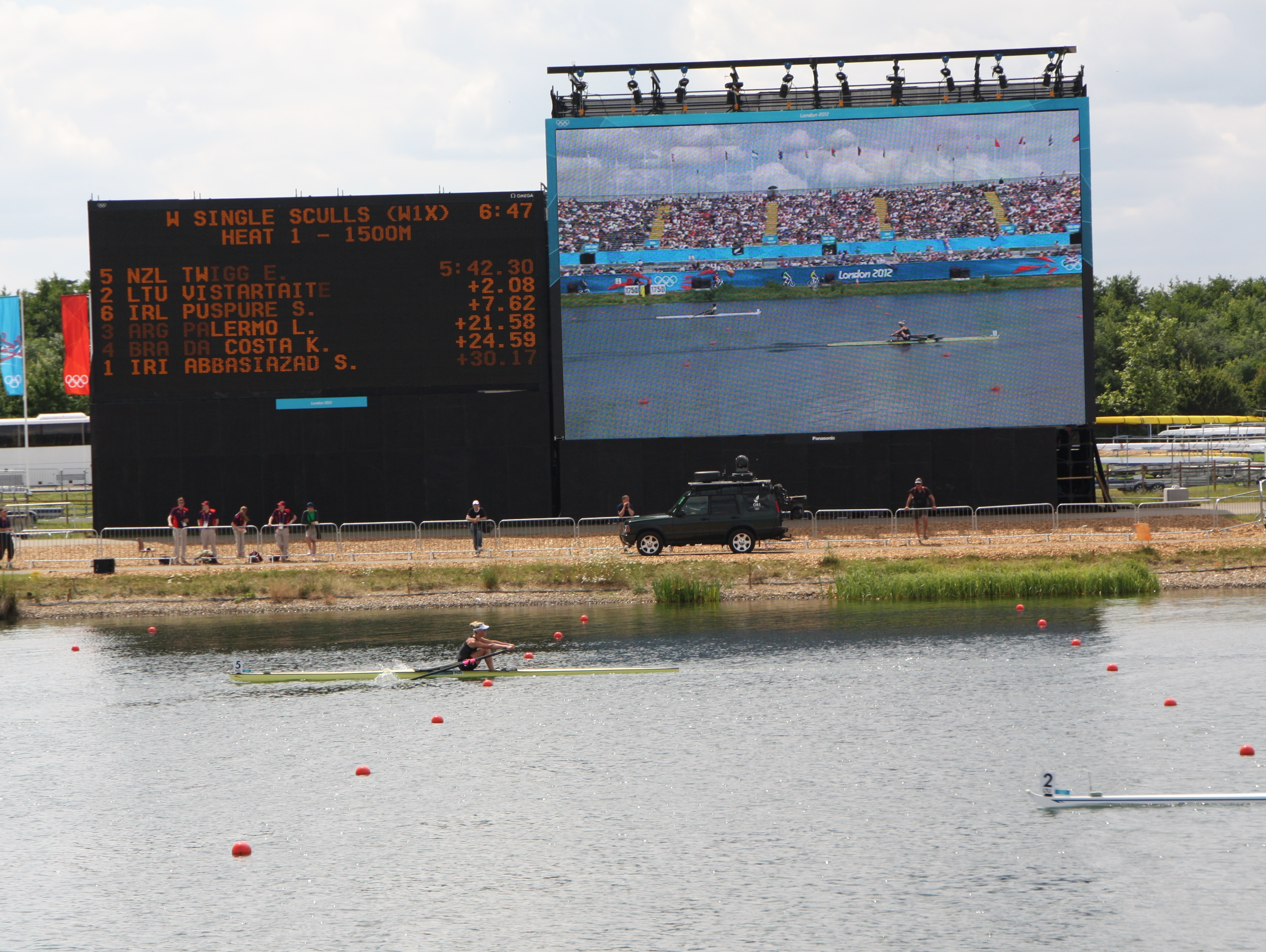 Rowing at the 2012 Summer Olympics – Women's single sculls Emma Twigg of New Zealand leading in heat 1 IMG_9368